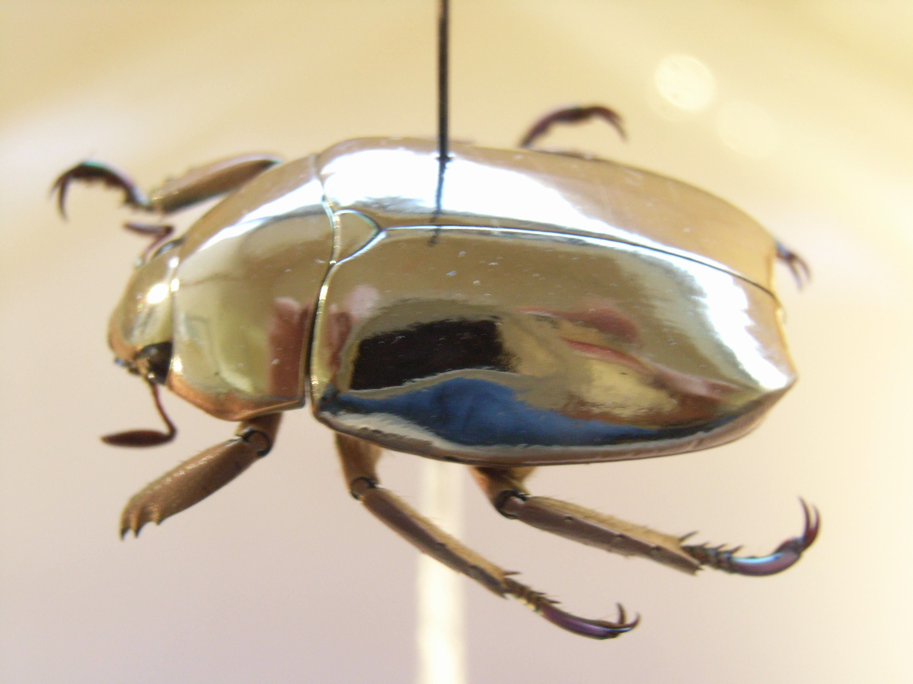 Chrysina limbata Ex coll.Felix Stumpe